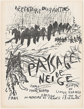 Painting by Pierre Bonnard